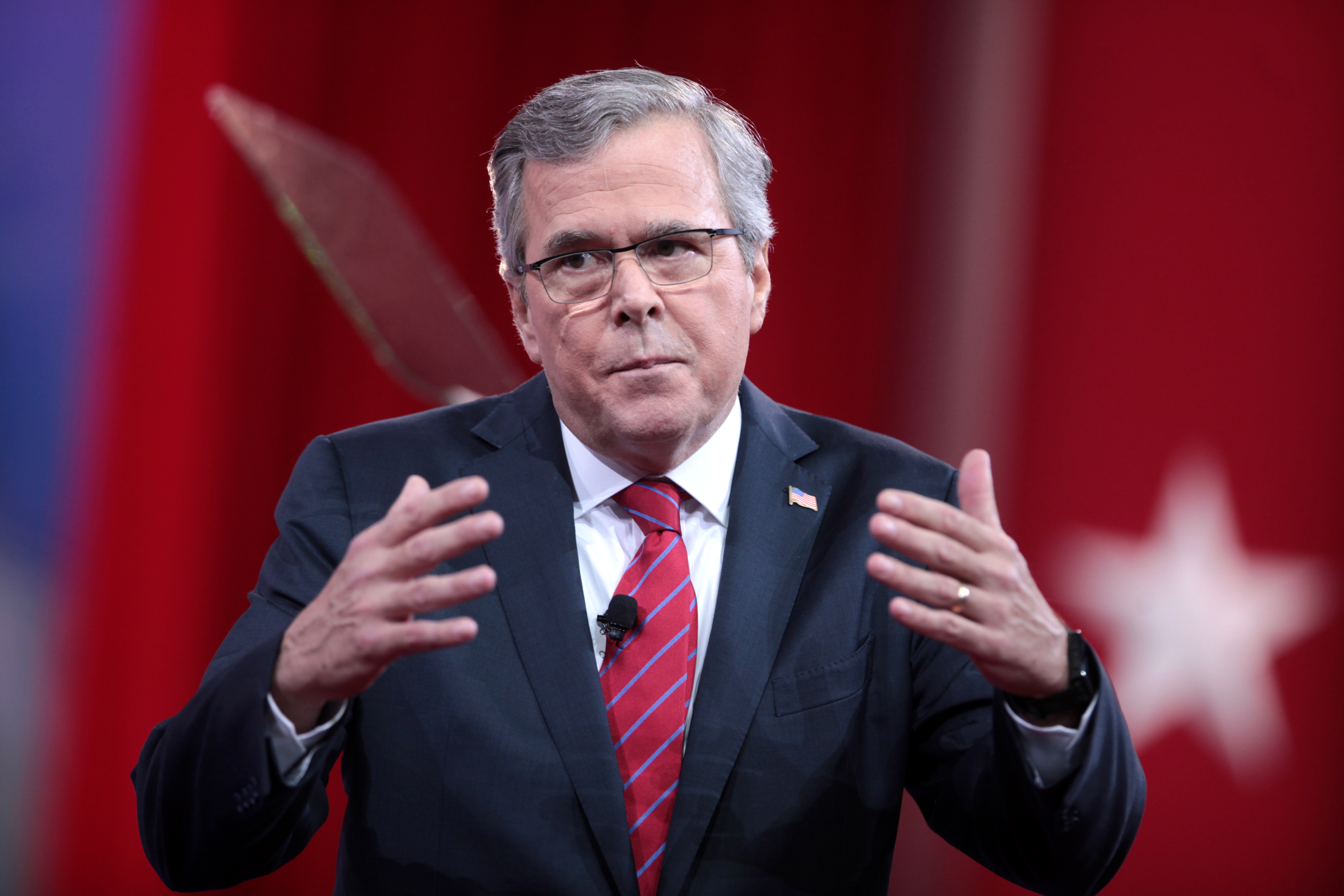 Jeb Bush speaking at CPAC 2015 in Washington, DC.